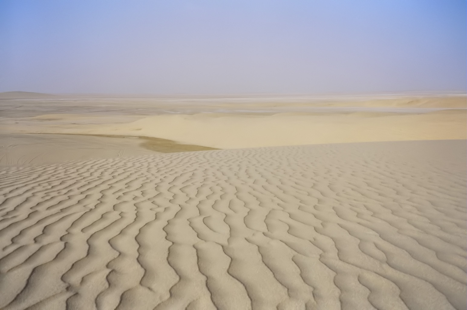 Desert in Qatar I took this photo myself.